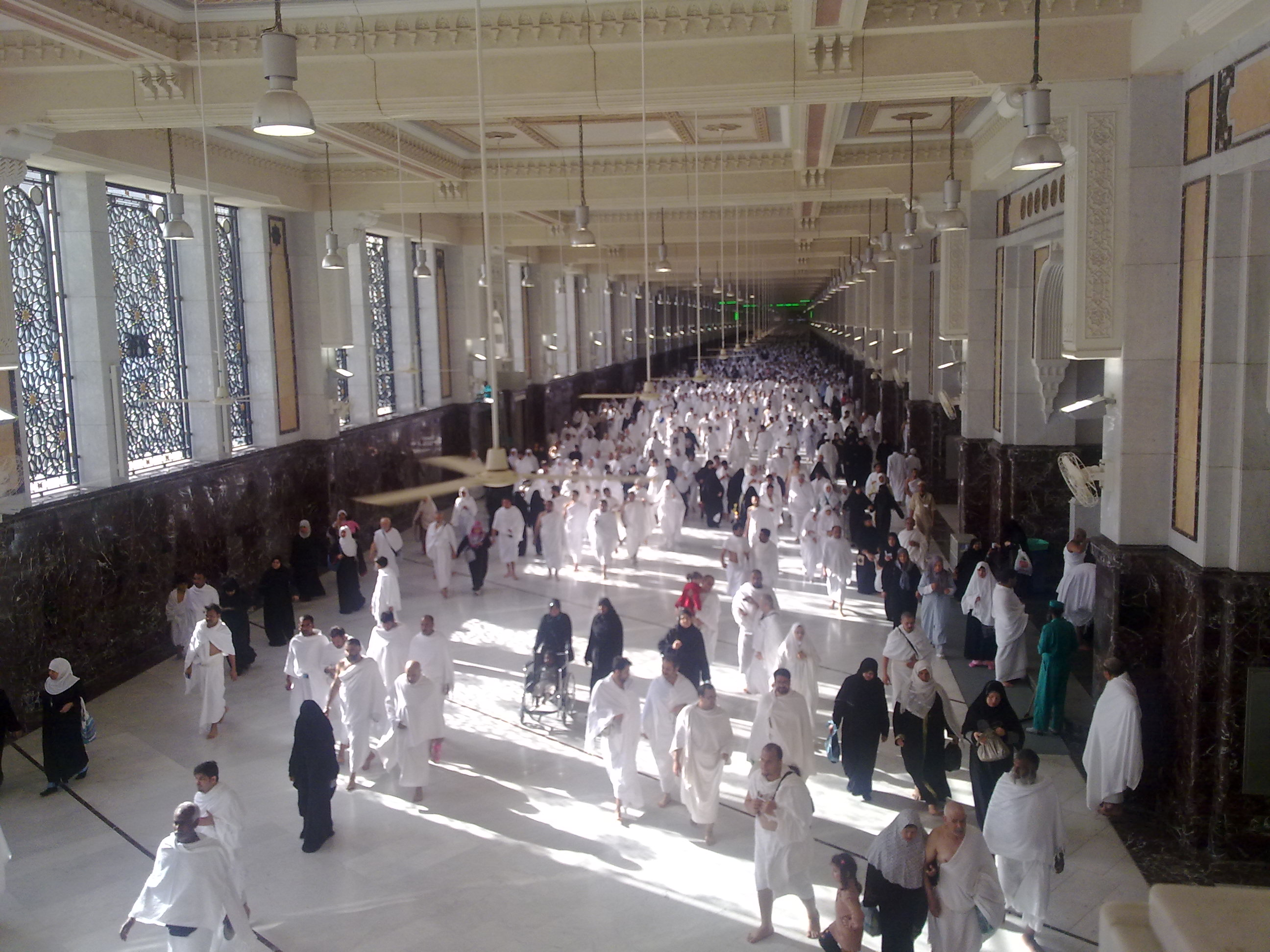 Sa'yee In the case of Go to Safa